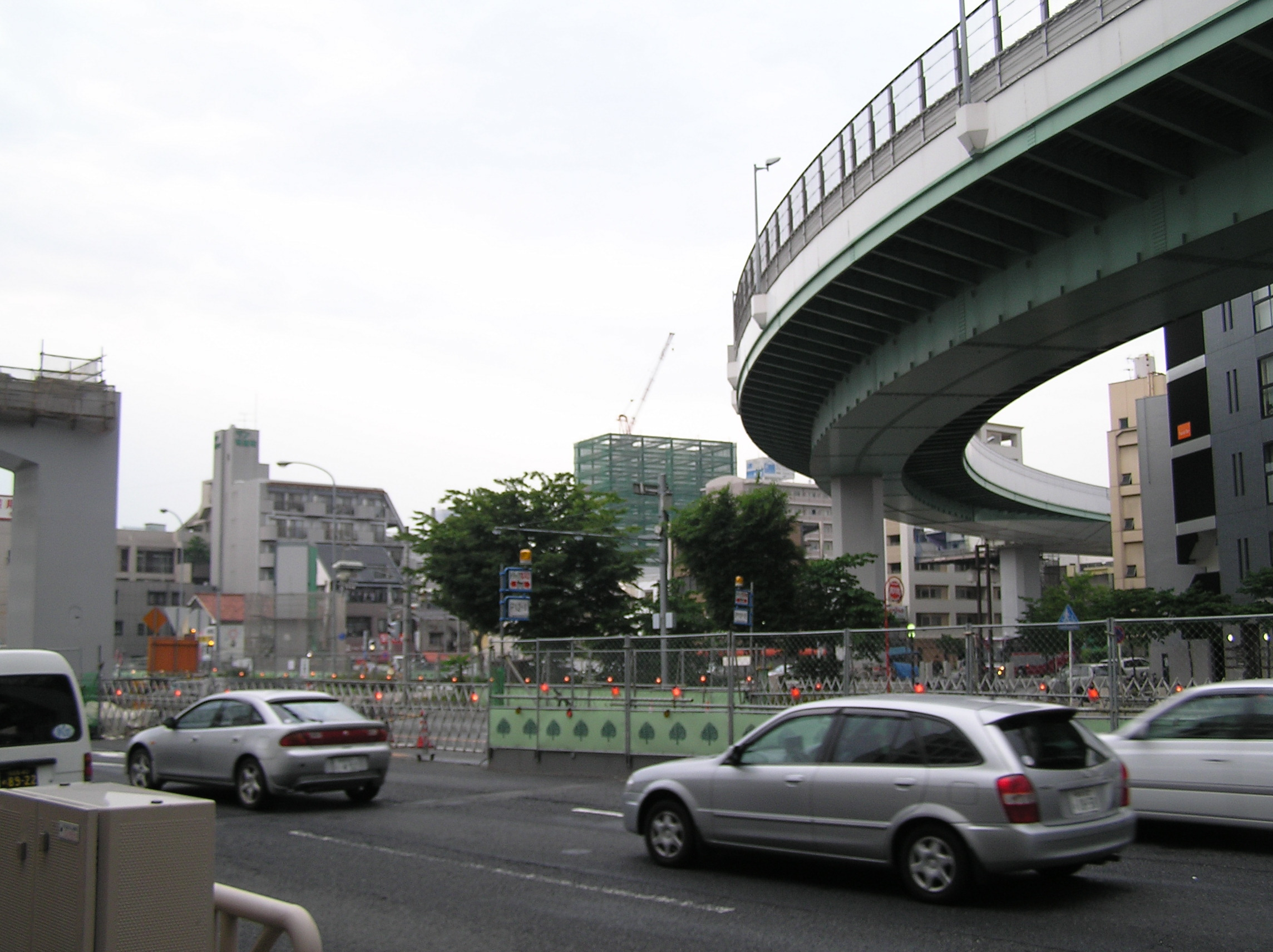 Construction site of the Nagoya Expressway Meidocho Junction in Nishi-ku, Nagoya City